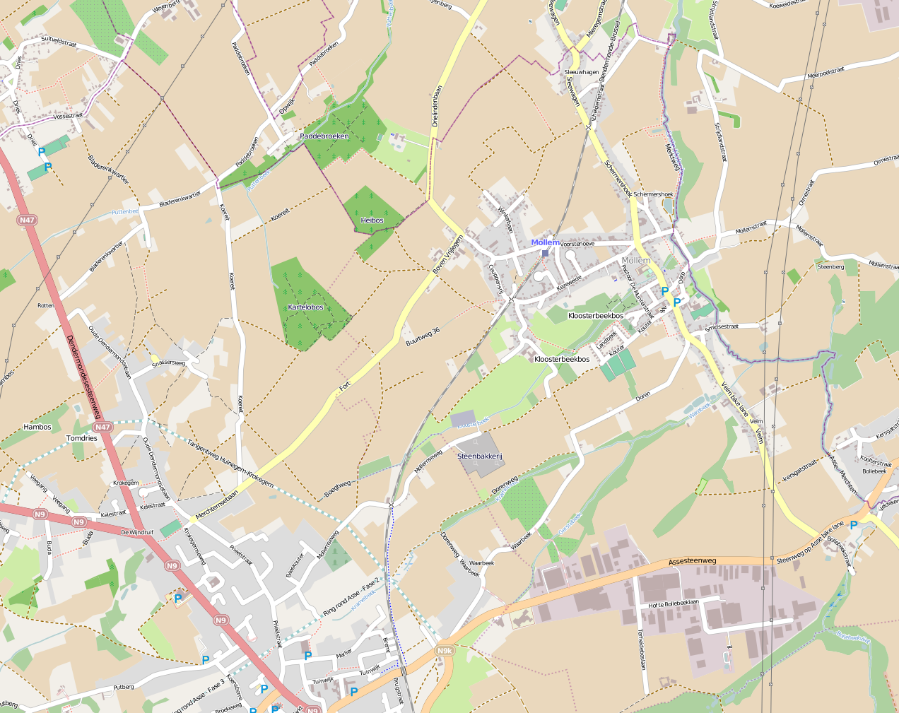 The village Mollem in Vlaams-Brabant België